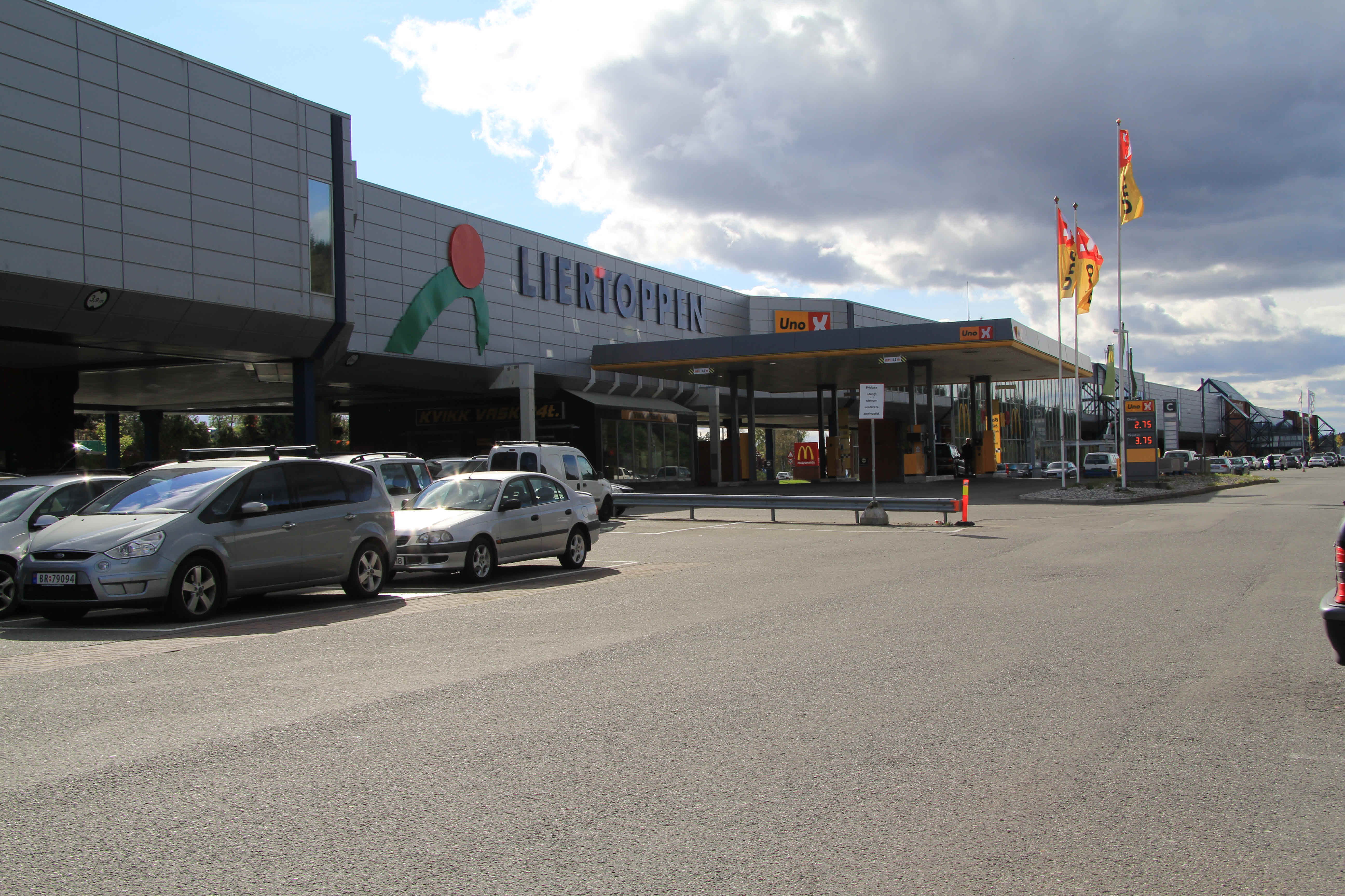 Liertoppen Shopping Center in Lier, Buskerud, Norway